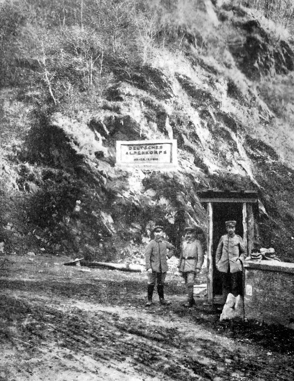 Plaque of the Alpenkorps in the Red Tower Pass at Verestorony with Hanoverian chaser